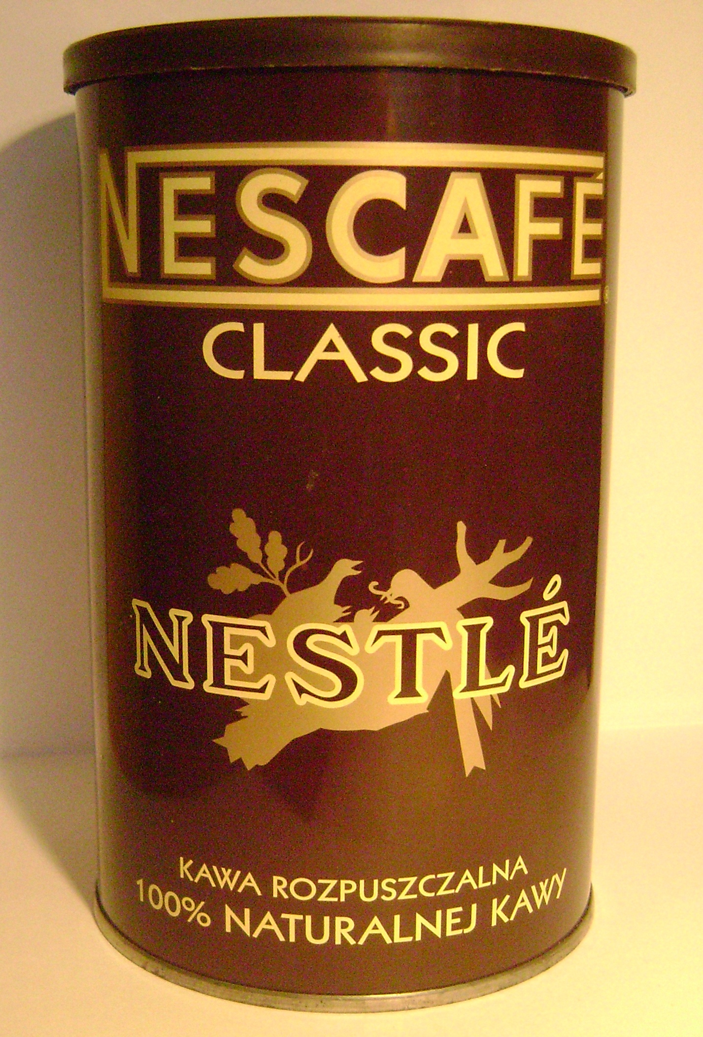 " Nescafé ", Tin